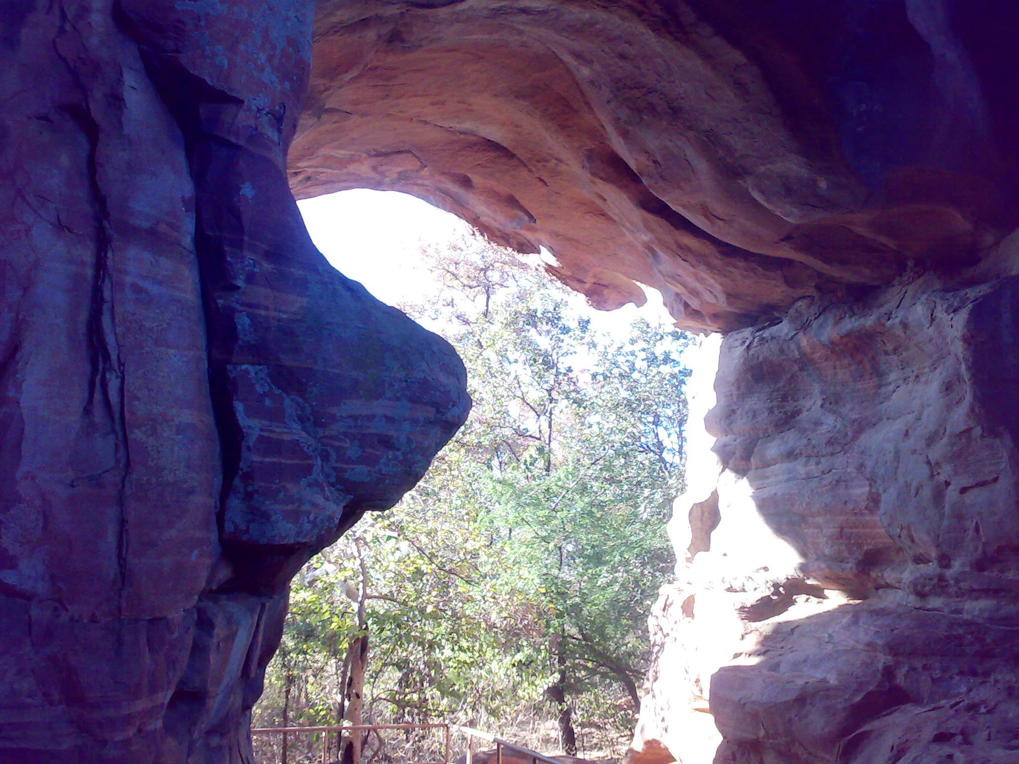 Pre - historic rock shelters